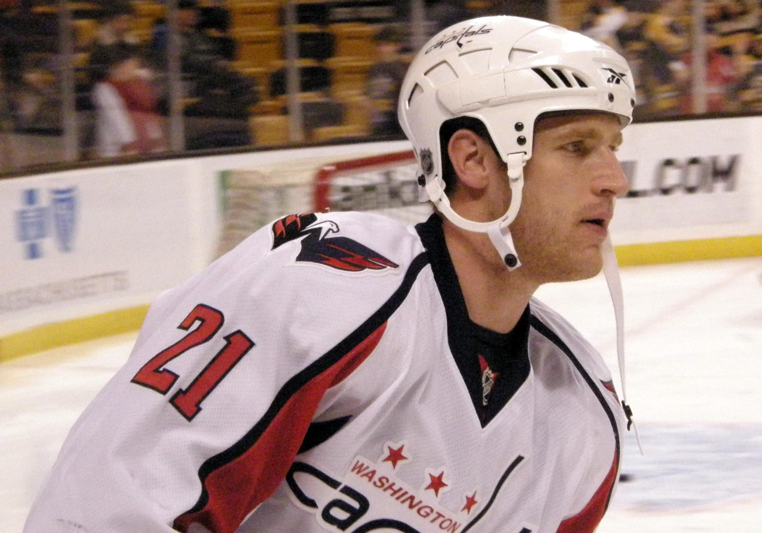 21 Brooks Laich